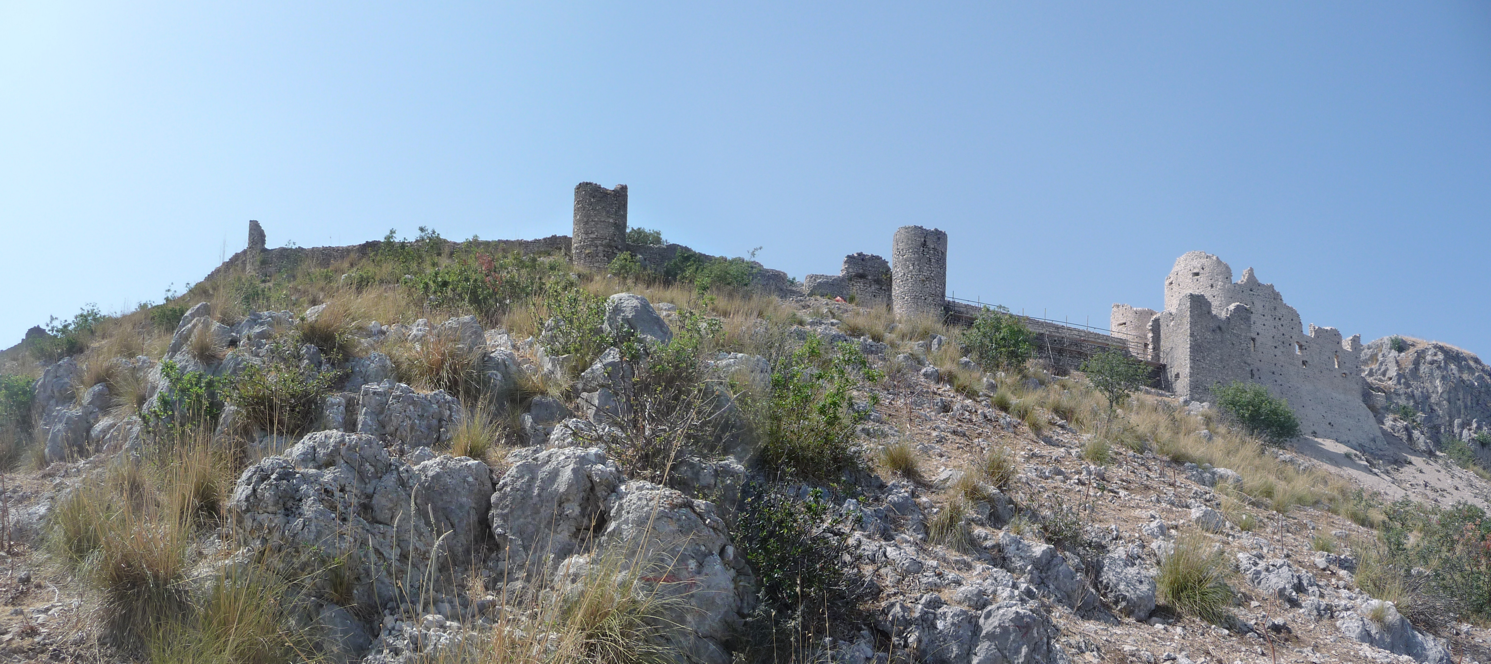 Landscape of Walls on Norman Castle of Stilo (Calabria - Italy) in restoration